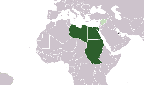 Federation of Arab Republics 1970: Federation agreement between Egypt, Libya and Sudan - Syria plans to join